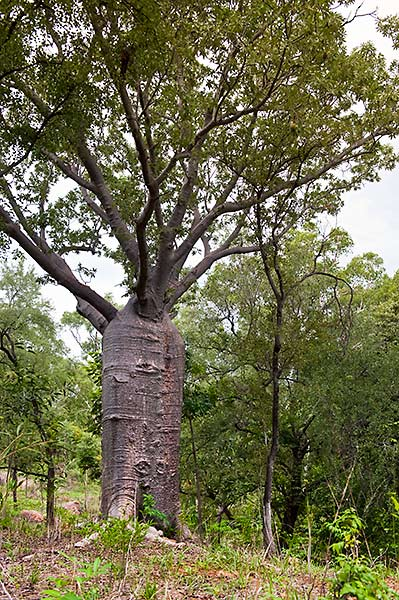 Boab Tree - Katherine River, Northern Territory.